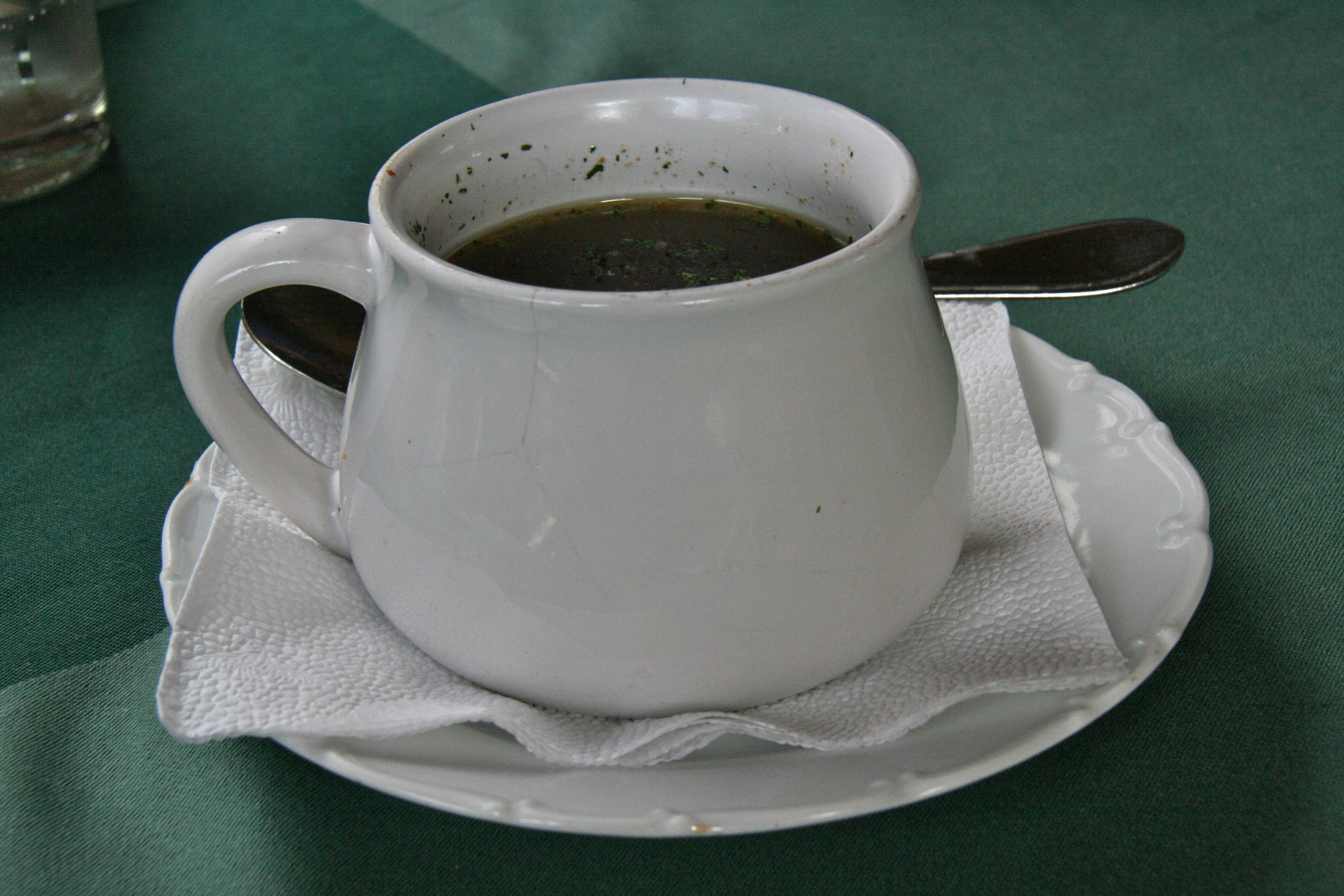 Bouillon